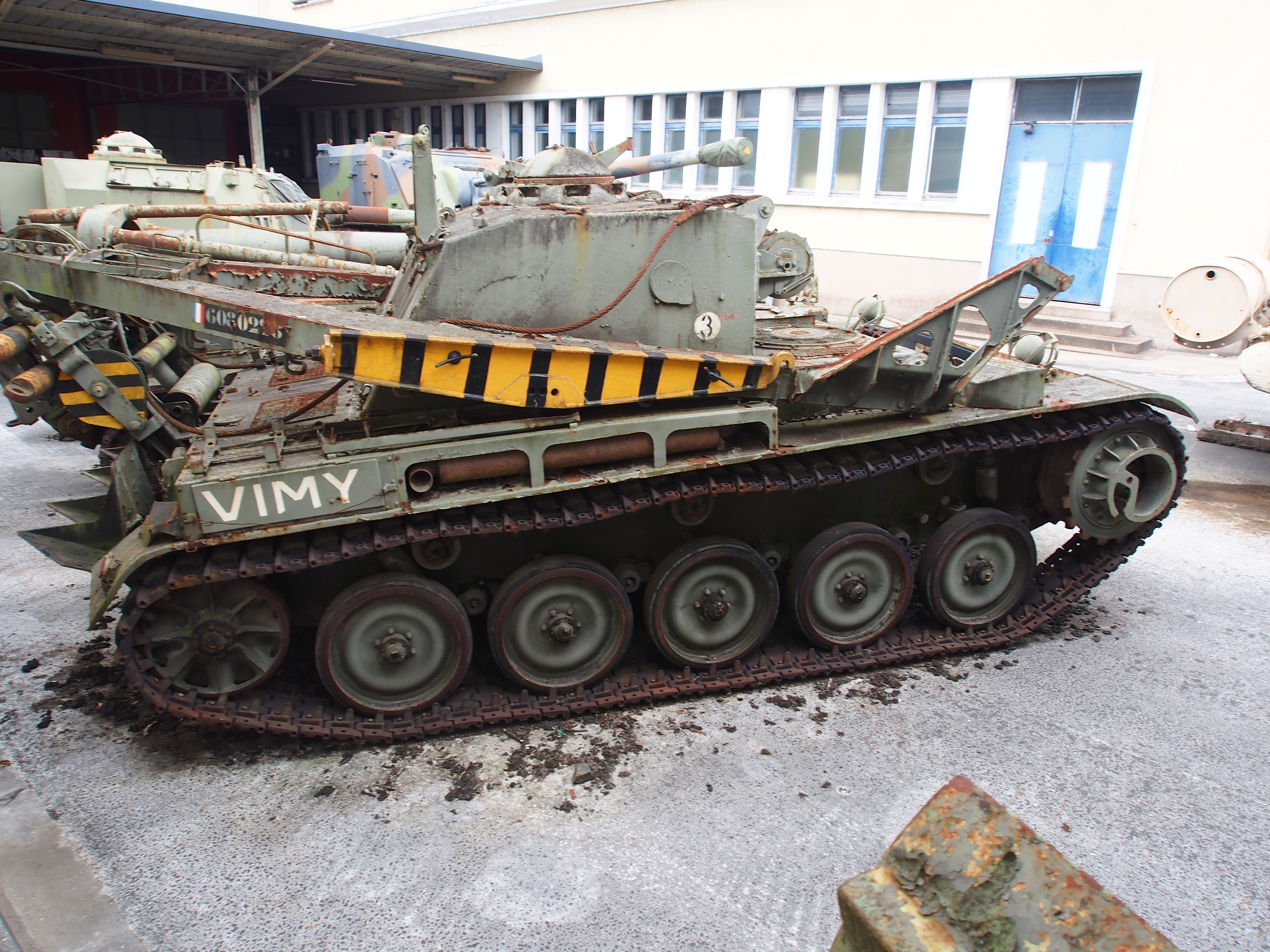 Photographed in the Musée des Blindés, France.